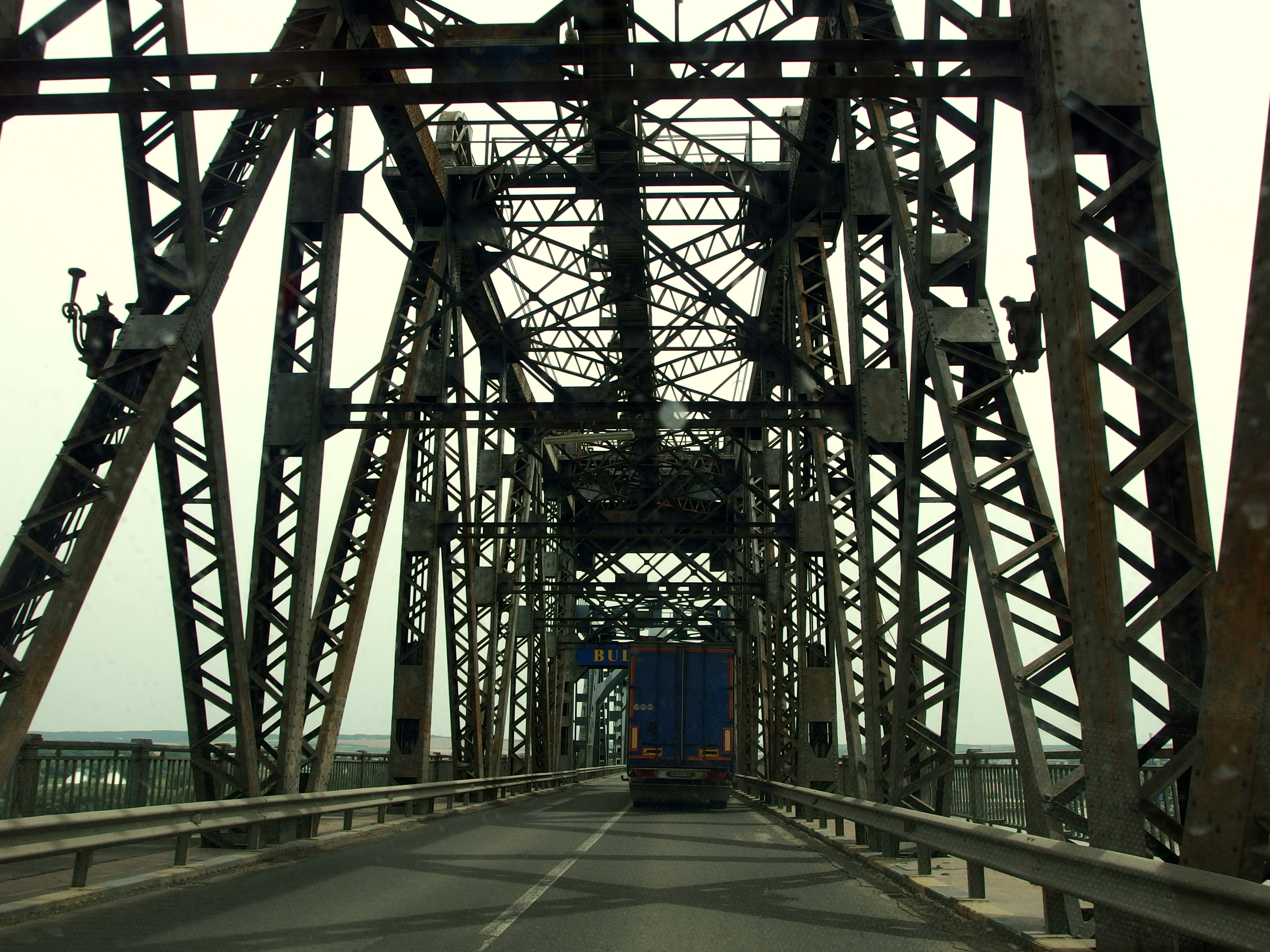 2014-06-25 in Rousse.